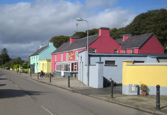 Kishkeam This is the main R577 road through Kishkeam and the bar is, I think, the Harp and Shamrock. The attributes of "The Kishkeam Lasses", one of whom is sat outside the bar, are celebrated in a traditional Irish tune, the music of which can be found here The pale green house is the Post Office, but it also has a fuel pump outside.